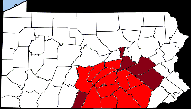 altered version of (Public domain map courtesy of The General Libraries, The University of Texas at Austin, modified to show counties relevant to article. Released under GFDL. See Wikipedia:U.S. county maps.)